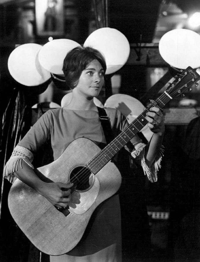 Judy Collins performing on the television program Hootenanny in 1963.